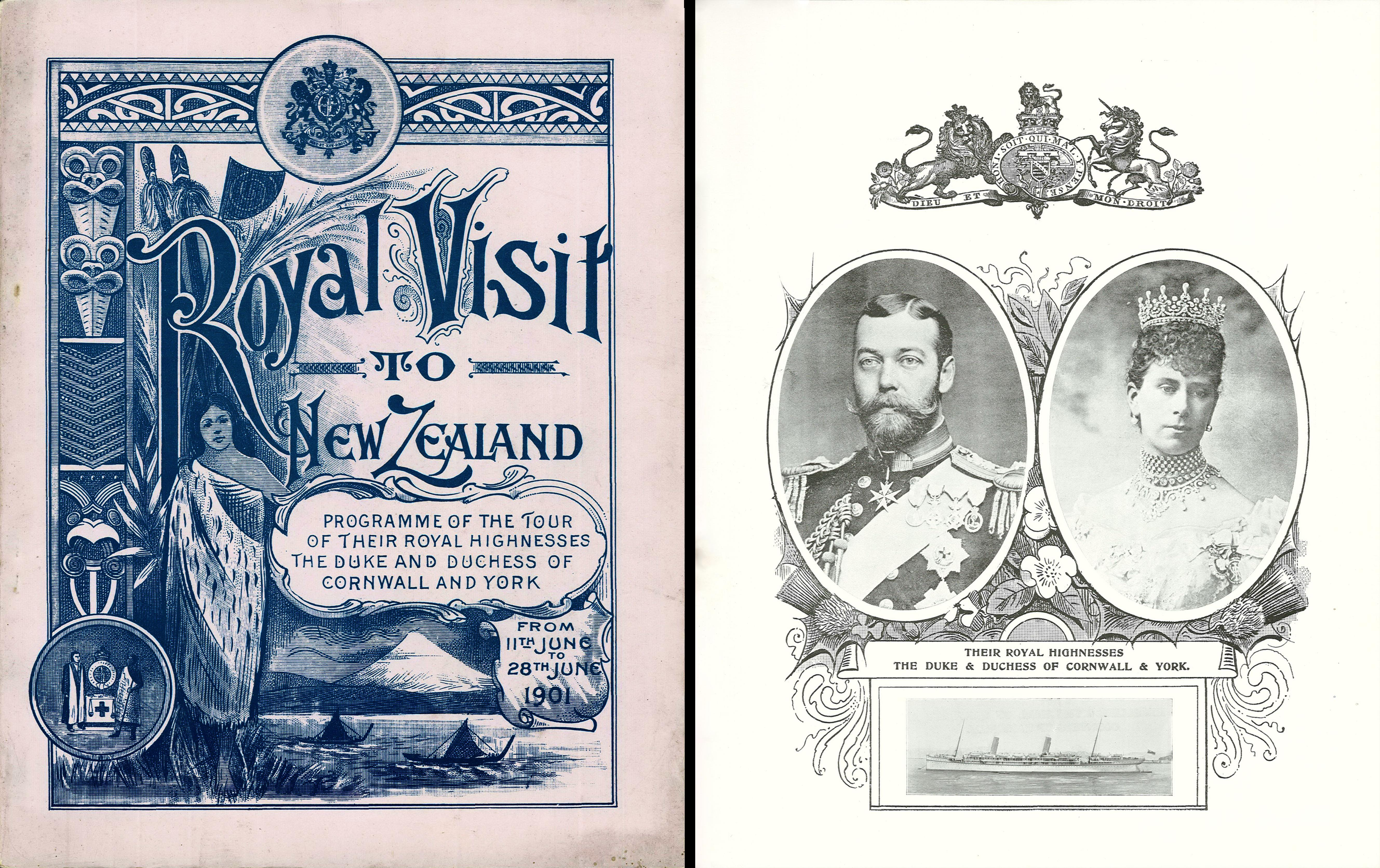 In 1901 Prince George and Princess Mary, Duke and Duchess of Cornwall and York, visited New Zealand as part of a world tour to pay tribute to the service given by the Empire nations during the Boer War. Originally the tour was intended to be undertaken by Albert Edward, Prince of Wales, however the death of Queen Victoria on 22 January 1901 meant that he was now required to plan his own coronation for 1902. Consequently his son, Prince George, was consigned to undertake the voyage instead. The royal couple arrived in Auckland on 11 June, and travelled as far down the country to Dunedin, departing on 27 June. Upon the death of King Edward VII in 1910, the Duke and Duchess became King George V and Queen Mary. This booklet detailing the progress of the tour was issued as an official souvenir and illustrates their visits to Auckland, Rotorua, Wellington, Lyttelton and Dunedin. This booklet was one of many souvenirs collected by Frank David Thomson, a career public servant and statesman from 1901 to 1934. Thomson amassed a large collection of items from his career, including photographs, menus, programmes, booklets, and newspaper clippings. Archives NZ reference: ABHT W3920 8/[94] These items are being presented by Archives New Zealand across our Twitter, Flickr and Youtube pages to coincide with the Royal Visit of 2014. Throughout the tour we will be showcasing records relating to previous Royal tours, dating back to early as 1869. For further updates on historic Royal tours follow us on Twitter